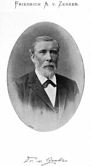 Friedrich Albert Zenker